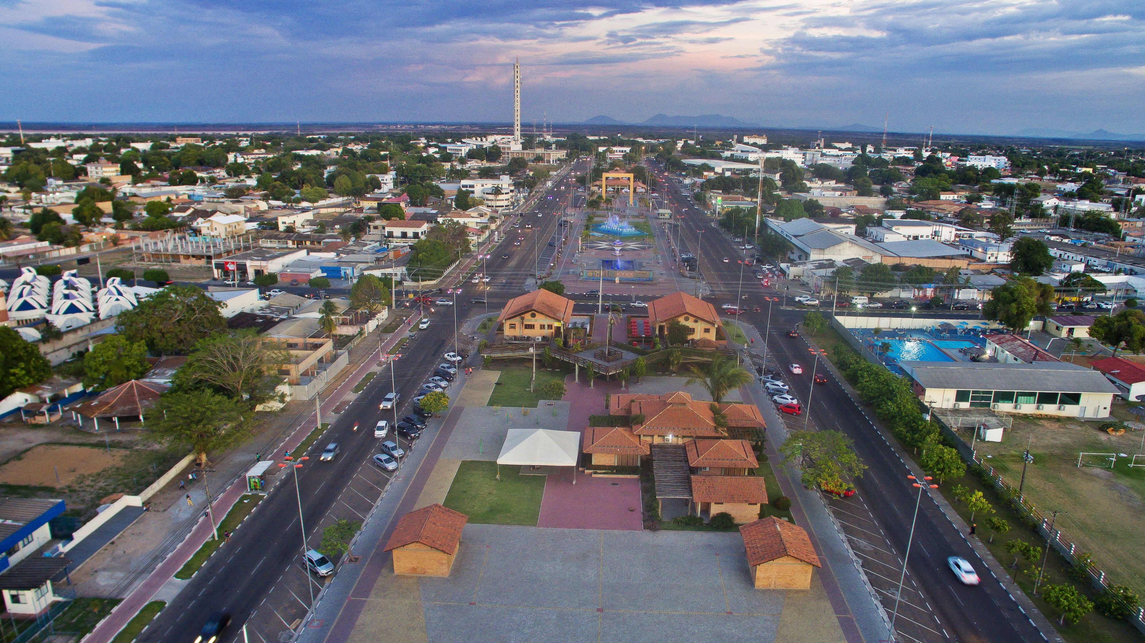 Boa Vista, the capital of the Brazilian state of Roraima.